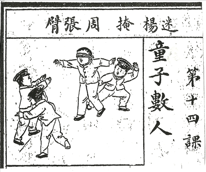 Picture from a 1912 Chinese schoolbook